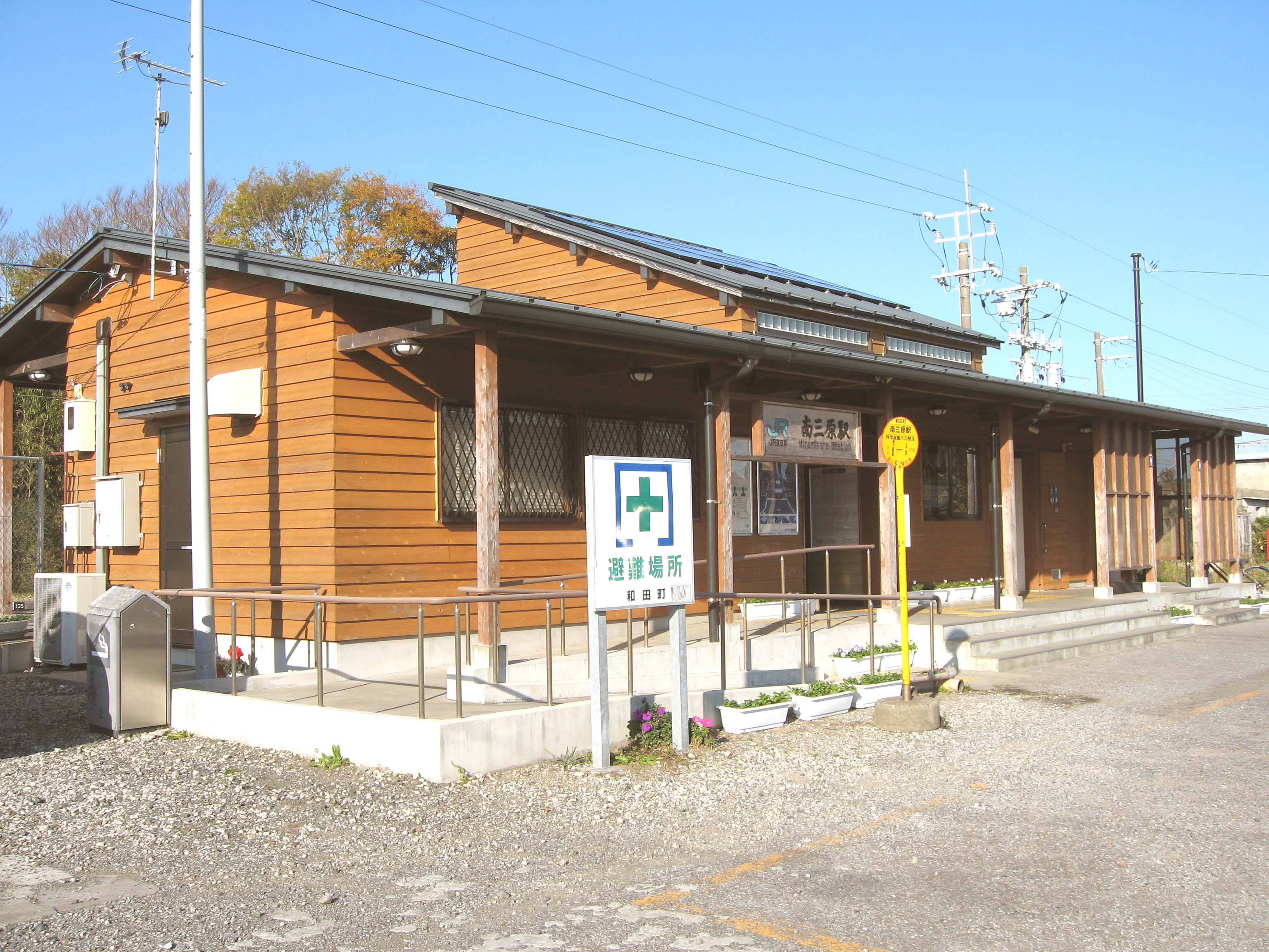 Minamihara Station, Uchibo Line, Chiba, Japan